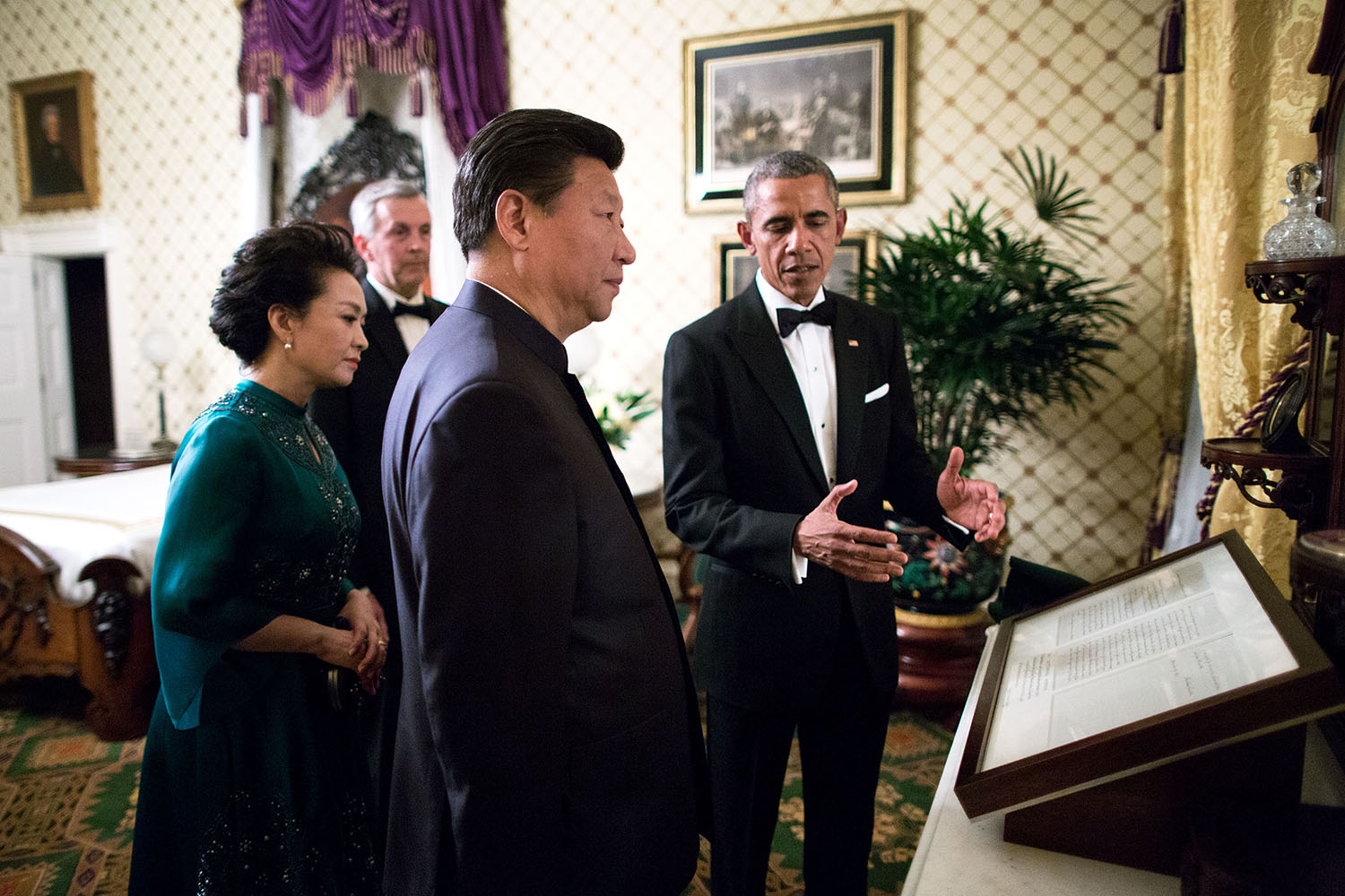 Sept. 25, 2015 "Two days after the visit of Pope Francis, the President and First Lady hosted President Xi Jinping of China and Madame Peng Liyuan for another State Visit. Before the formal State Dinner, the President showed President Xi and Madame Peng the Gettysburg Address in the Lincoln Bedroom." (Official White House Photo by Pete Souza)